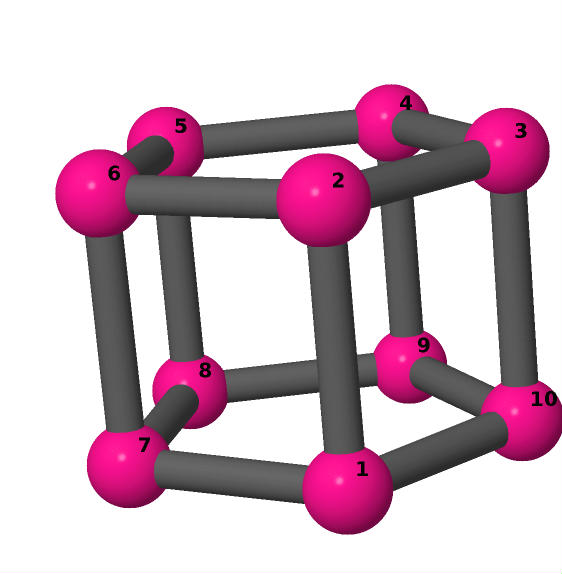 One of 19 simple cubic graphs with 10 vertices.